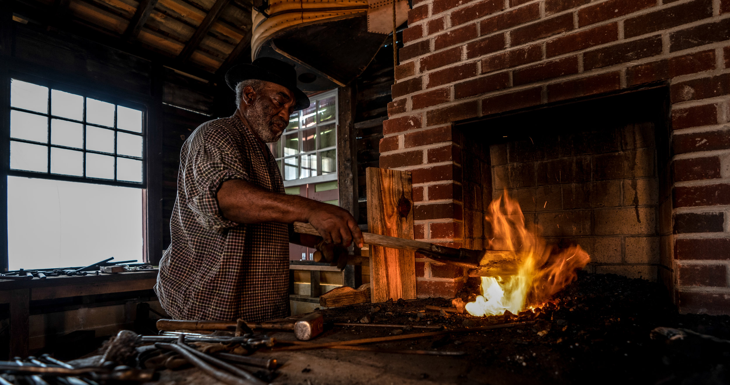 Blacksmith at Historic Westville heating iron over coal forge